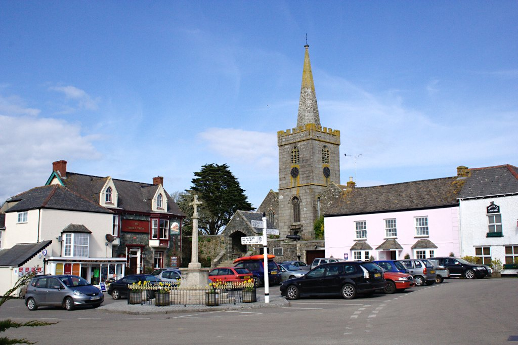 St Keverne Village Square, near to St Keverne, Cornwall, Great Britain.